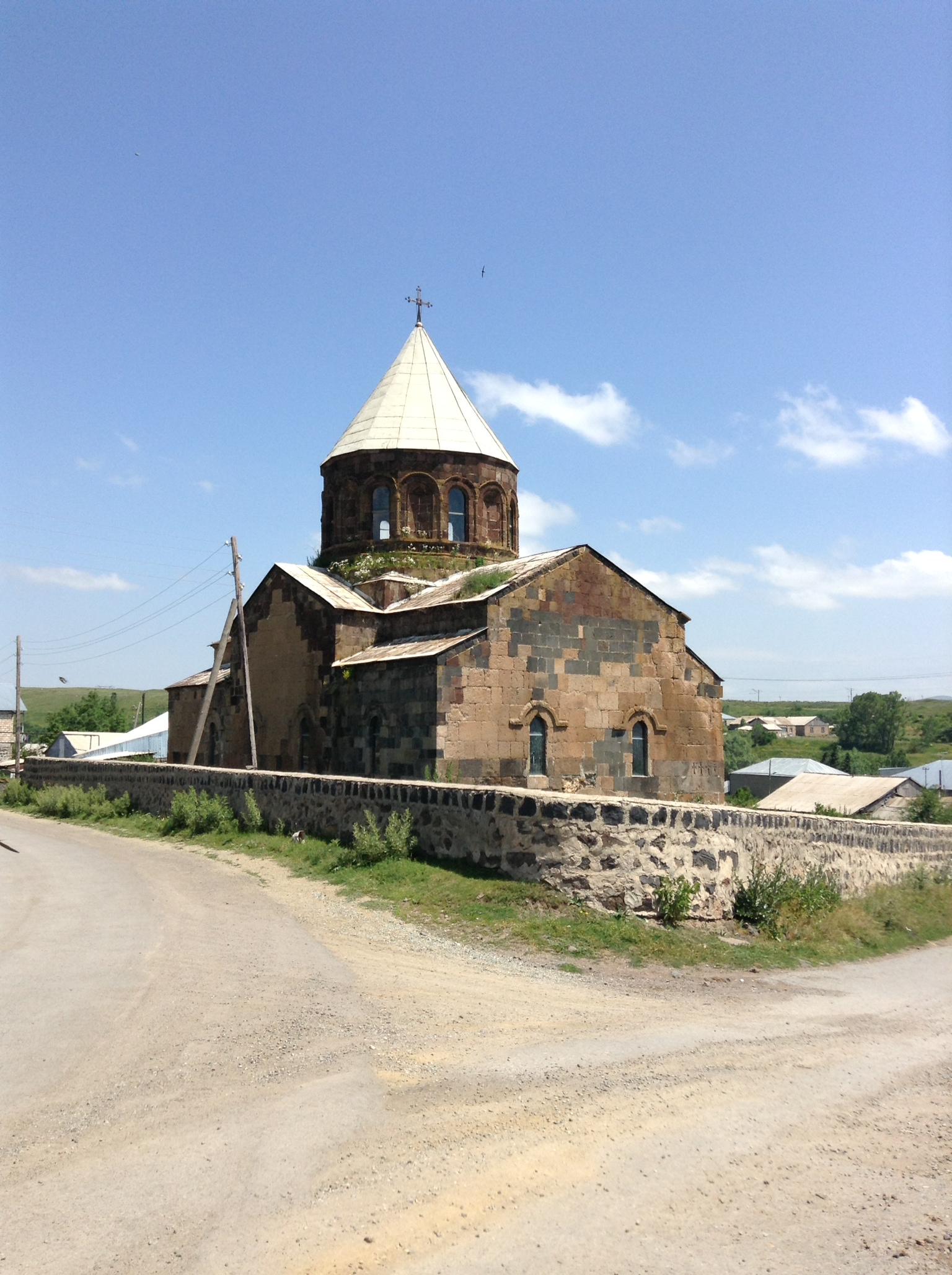 St. Jude Thaddaeus Church (Ddmashen, Armenia)